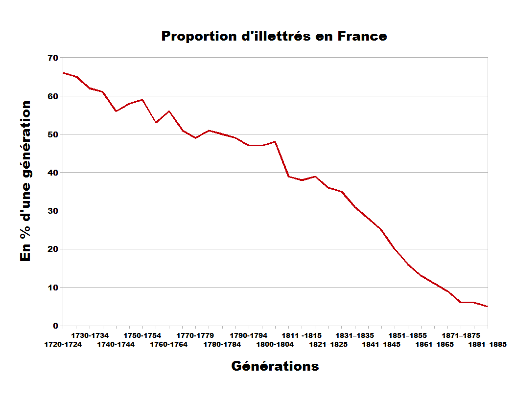 Evolution of the illiteracy rate in France as a function of 5-year long generations, born from 1720 to 1885. Data from J. Houdailles et A. Blum, "L'alphabétisation au XVIIIe et XIXeme siècle. L'illusion parisienne", Population, n°6, 1985, based on a 1985 INED survey and on the 1901 census.